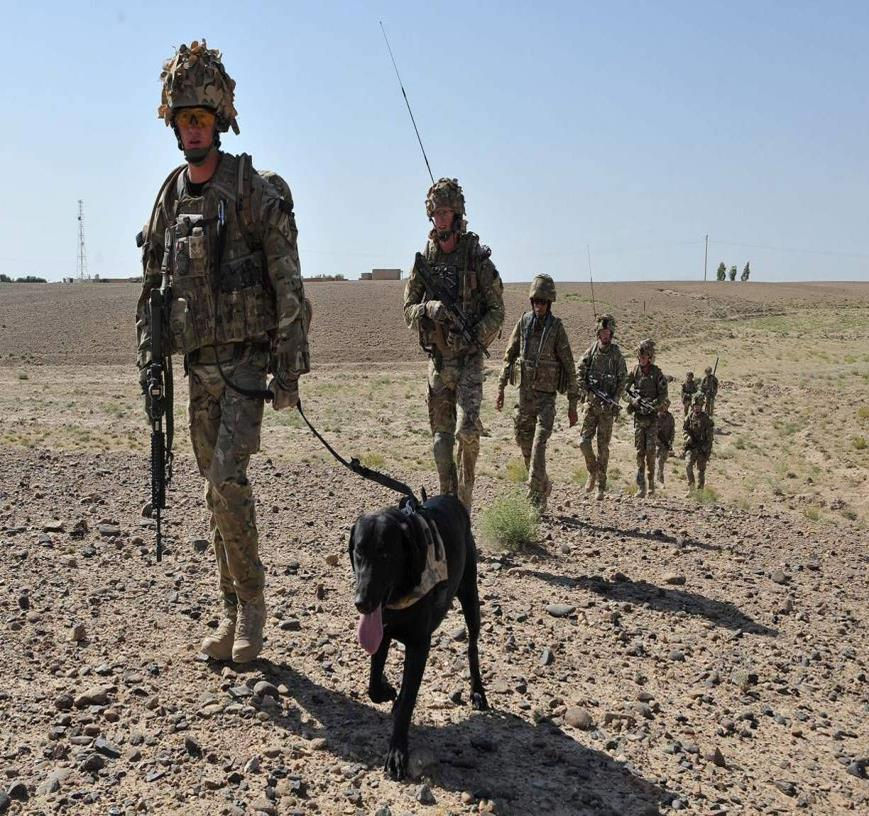 Can detect arms, ammunition and explosives, HME, etc.